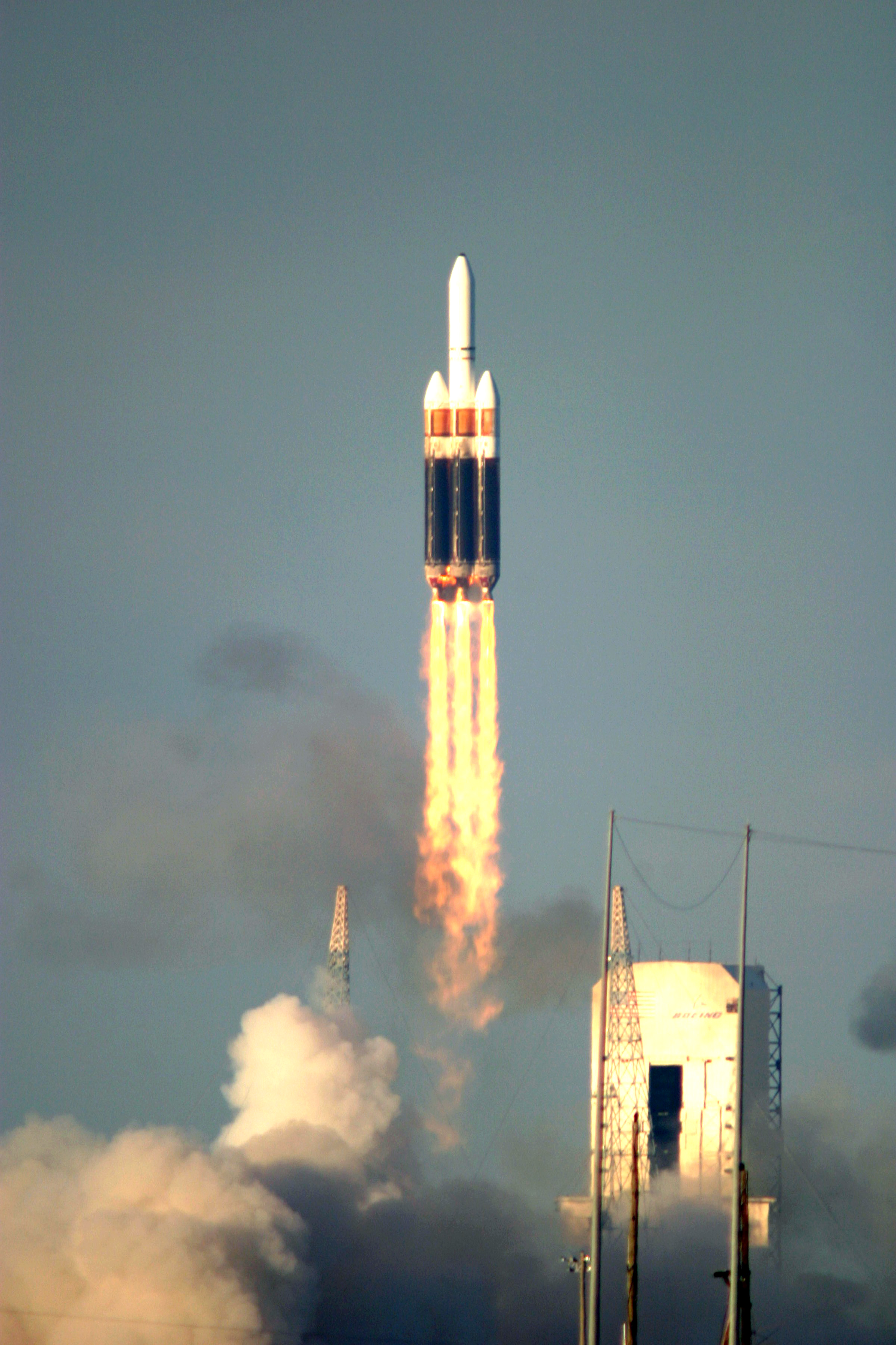 A Boeing Delta IV Heavy launch vehicle lifted off from Cape Canaveral Air Force Station on a demonstration mission for the Air Force's evolved expendable launch vehicle program. The mission was to send the satellite into a geosynchronous Earth orbit.